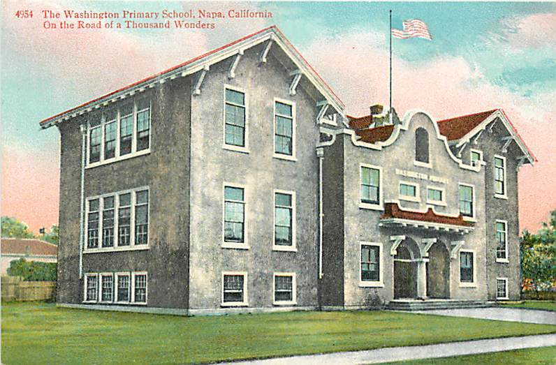 A tinted postcard of Washington Primary School published by the Cardinell-Vincent Company of San Francisco soon after the school opened in 1909. The text on the card reads, "4954 The Washington Primary School, Napa, California - On the Road of a Thousand Wonders". There is no description on the reverse, which is a divided back used until 1916.